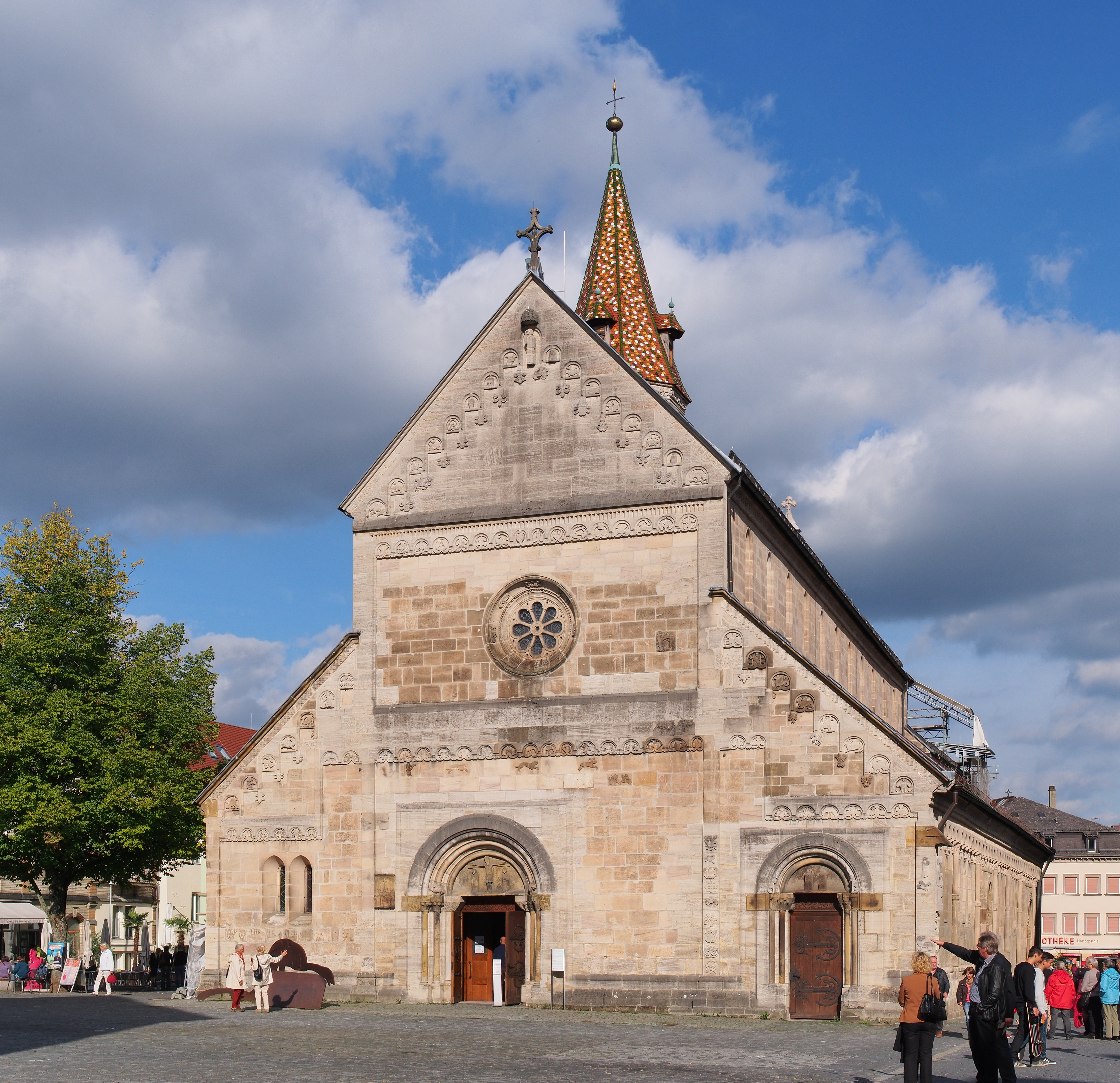 St. John Church, Schwäbisch Gmünd, Germany